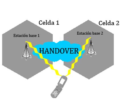 photo handover